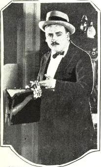 Still from the American film The Black Bag (1922) with Bert Roach, on page 31 of the June 10, 1922 Universal Weekly.